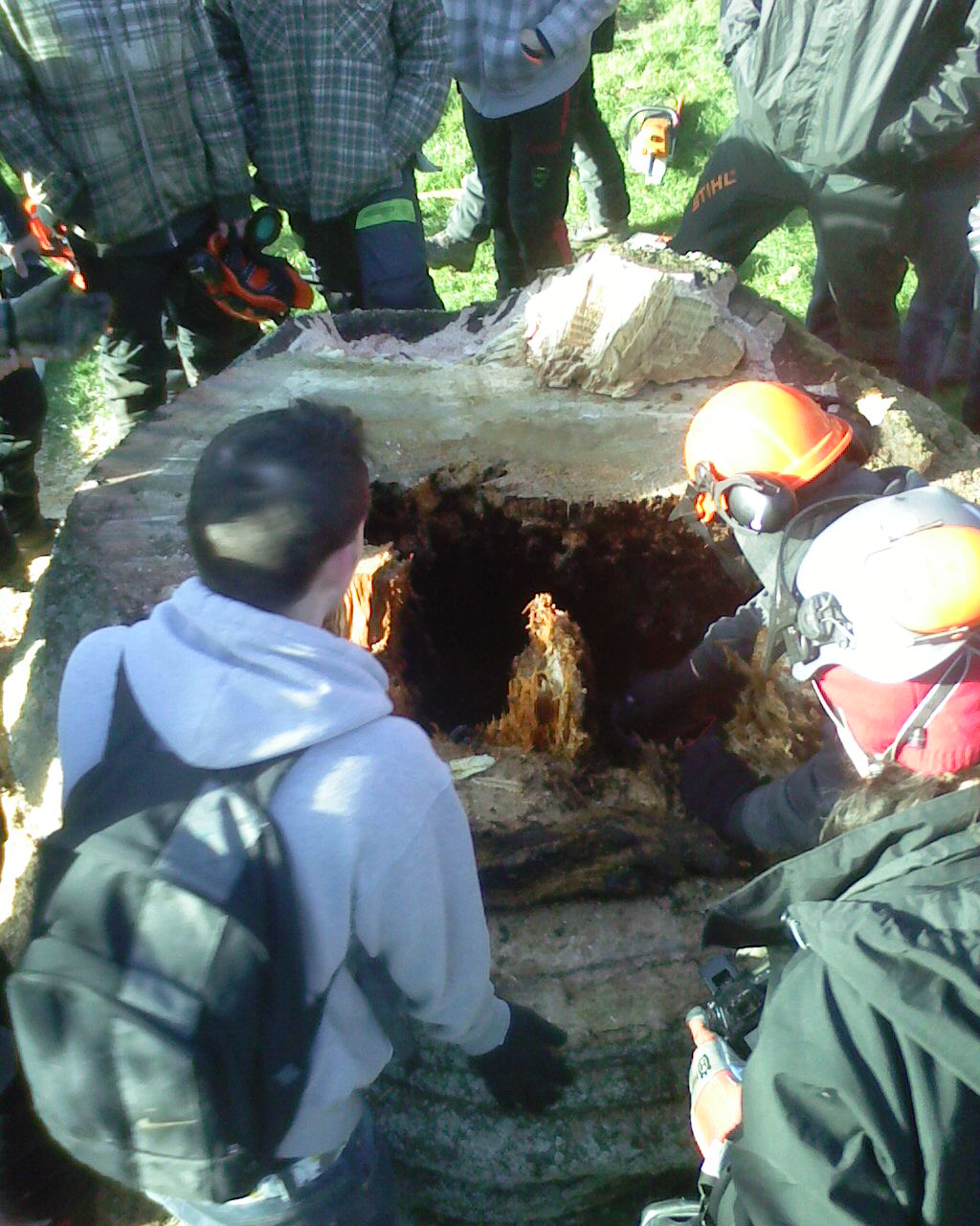 Bicton College arboriculture students gather around the stump of a recently felled Araucaria Araucana. Cavity contained slime moulds, nests of arachnids, and various saproxylic arthropods.